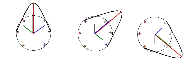 rotational magnetic field